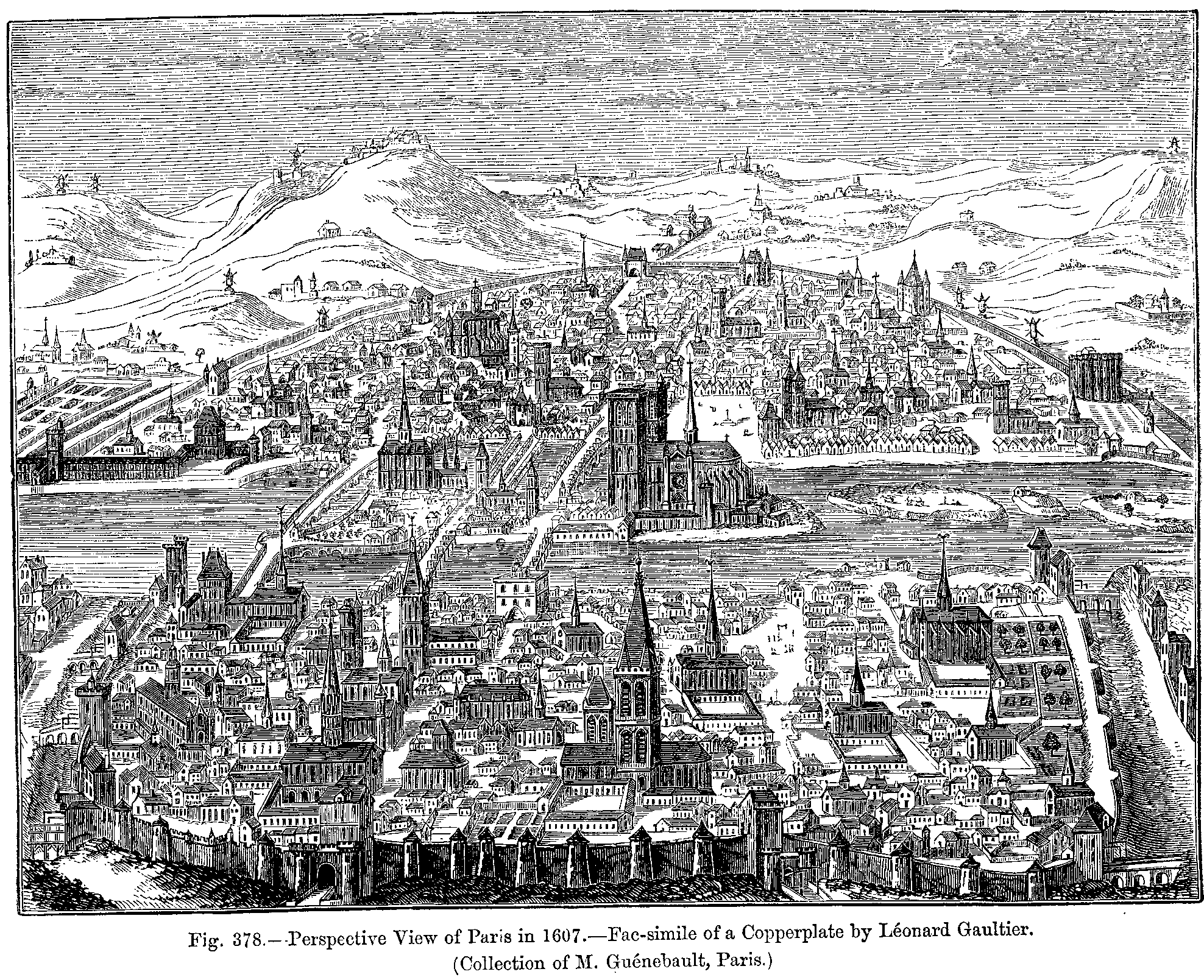 Perspective View of Paris in 1607.--Fac-simile of a Copper-plate by Léonard Gaultier. (Collection of M. Guénebault, Paris.) Project Gutenberg text 10940